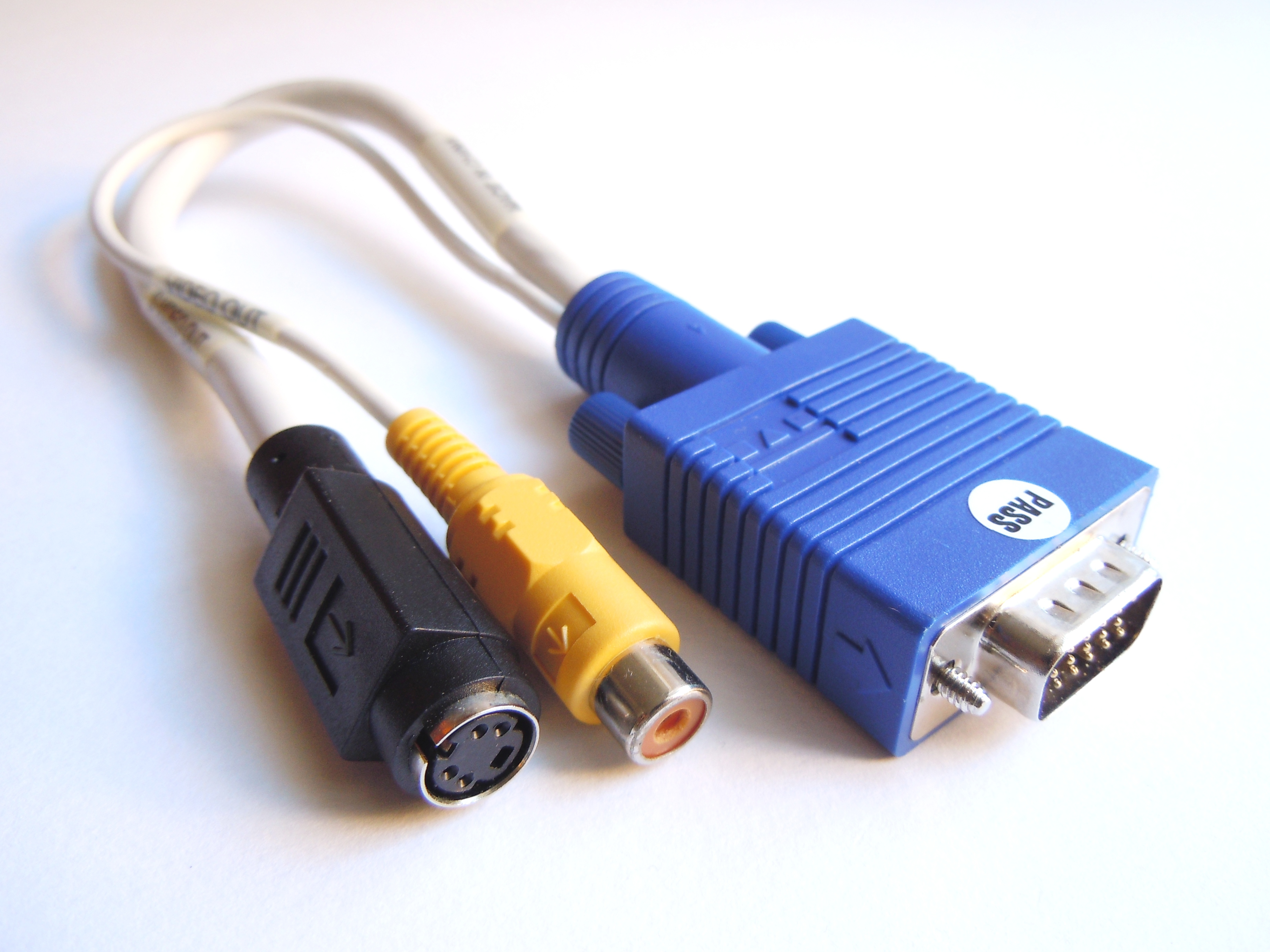 adapter VGA to composite video or S-Video (mini-DIN 4-pin).